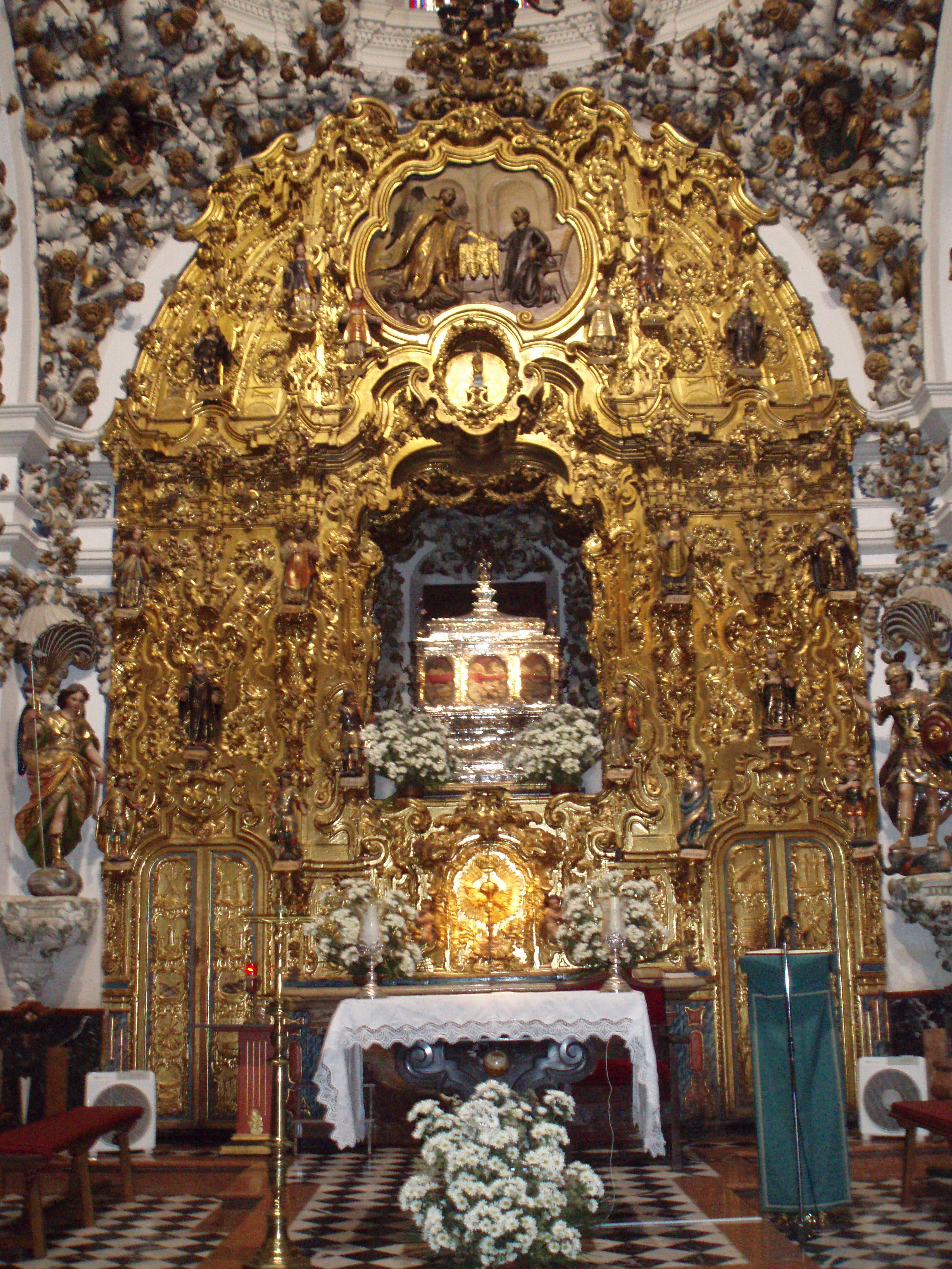 Church of Saint Peter, in the city of Córdoba. (Spain).